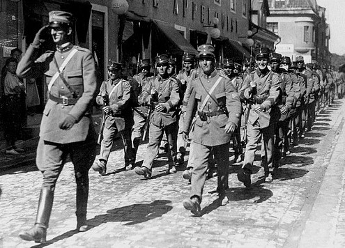 Swedish Army officer and member of the Swedish Volunteer Battalion Sven Hedengren (1897-1972) during a parade in Visby (Adelsgatan)